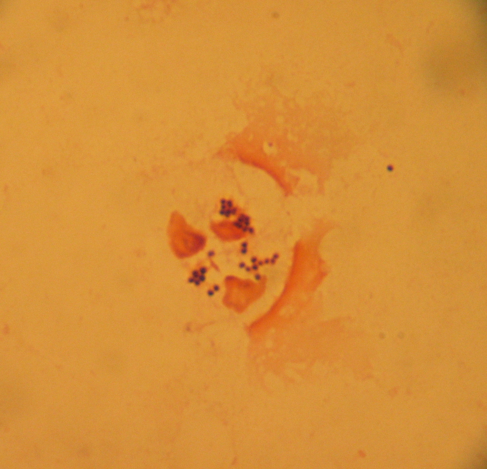 Staphylococcus aureus: Gram positive cocci under the microscope (40x) from a sputum sample.